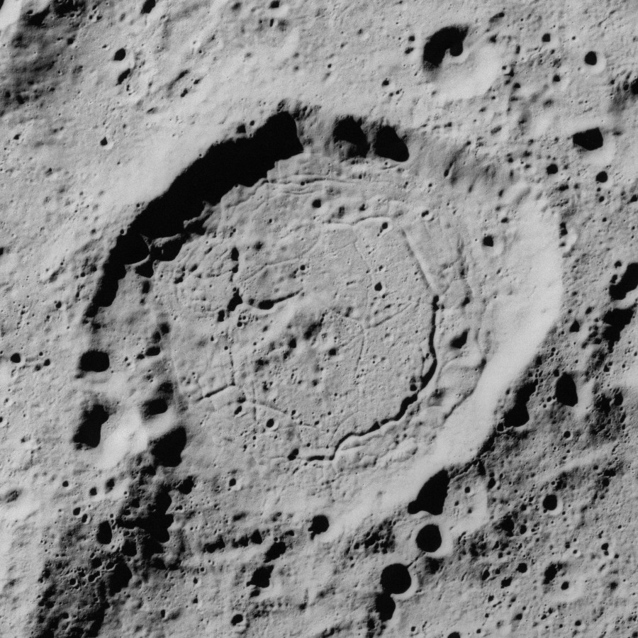 Kostinskiy, on the far side of the moon. North is in upper right.